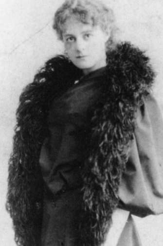 Maud Gonne in the early 1890s